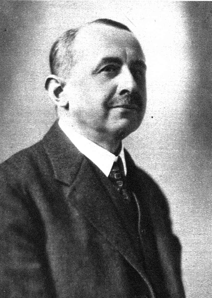 Ernst von Streeruwitz (1874–1952), Chancellor of Austria for a few months in 1929